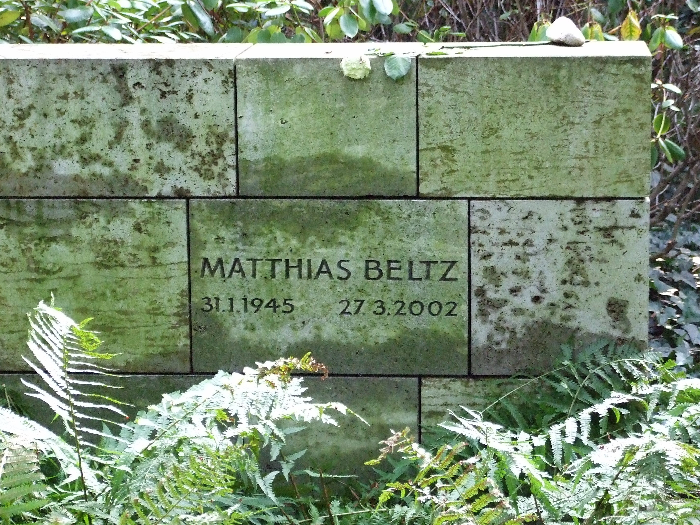 Grave of Matthias Beltz, Hauptfriedhof, Frankfurt am Main, Germany